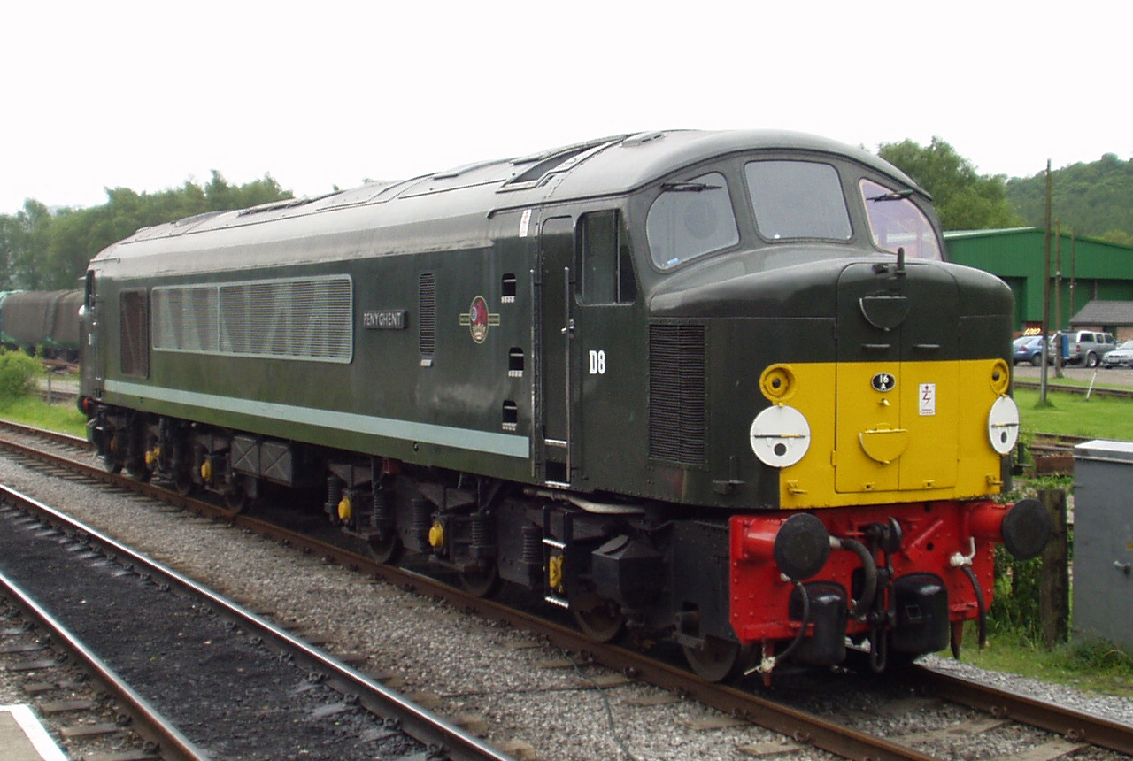 Class 44 "Peak" D8 at Rowsley South